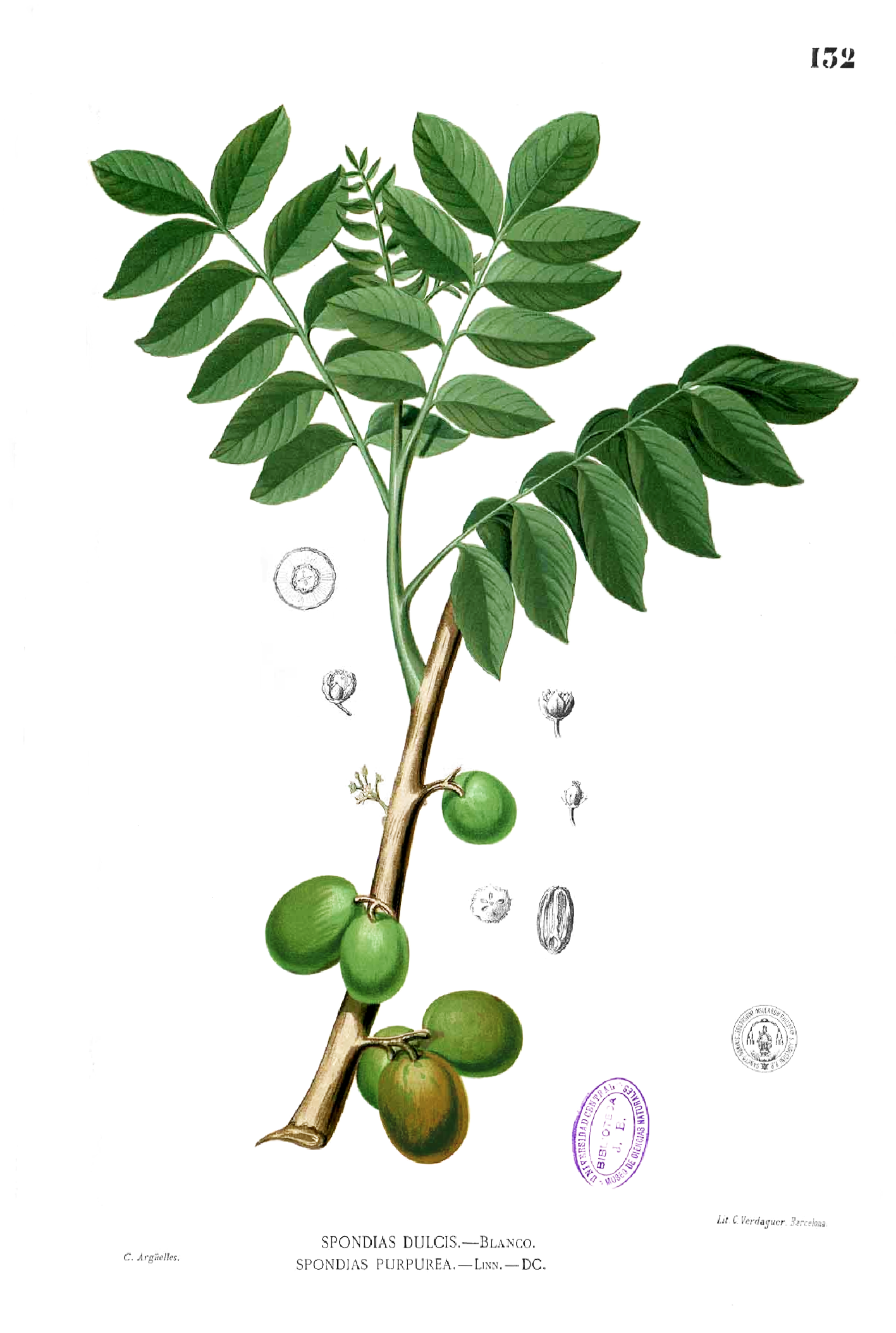 Plate from book